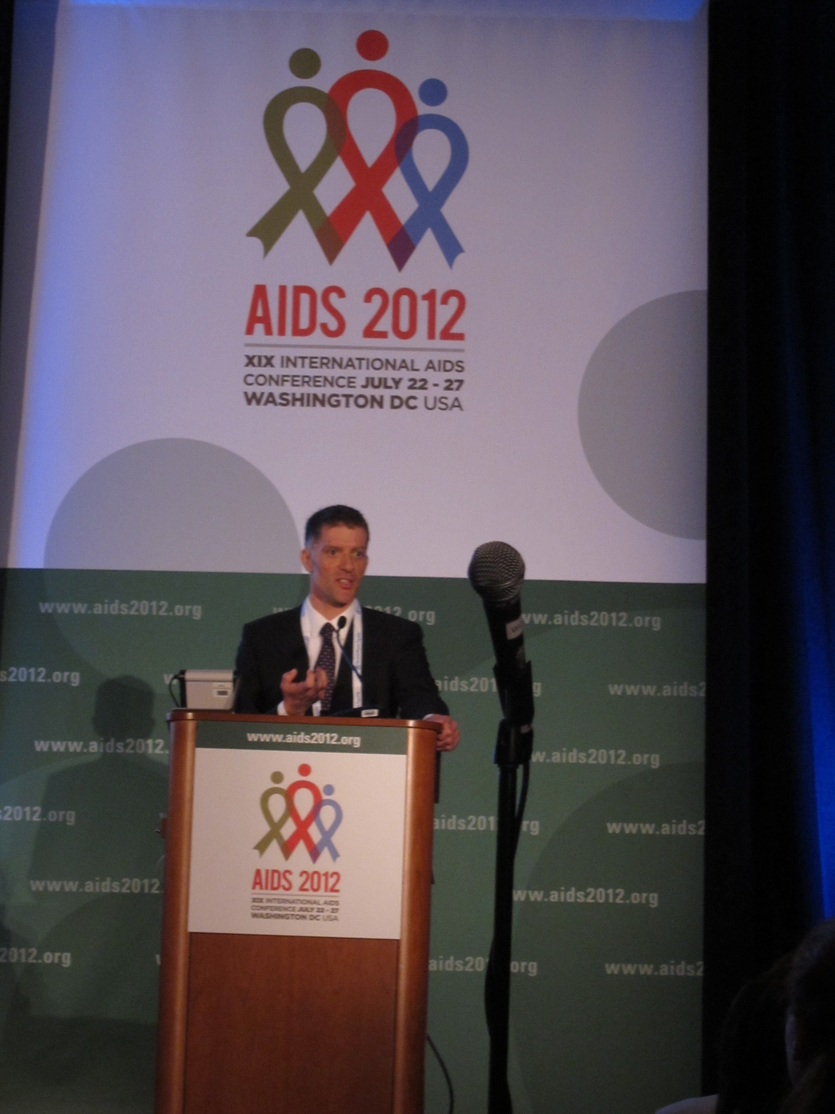 International AIDS Conference 2012 (Washington, DC)